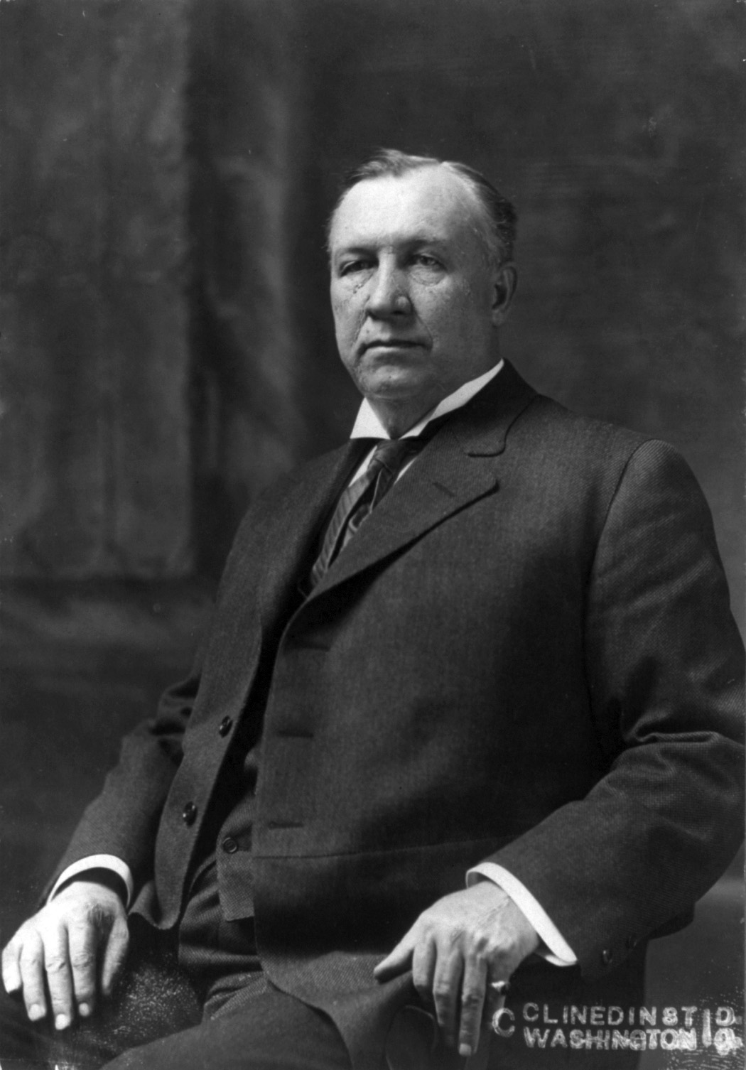 M. Hoke Smith, United States Secretary of the Interior.